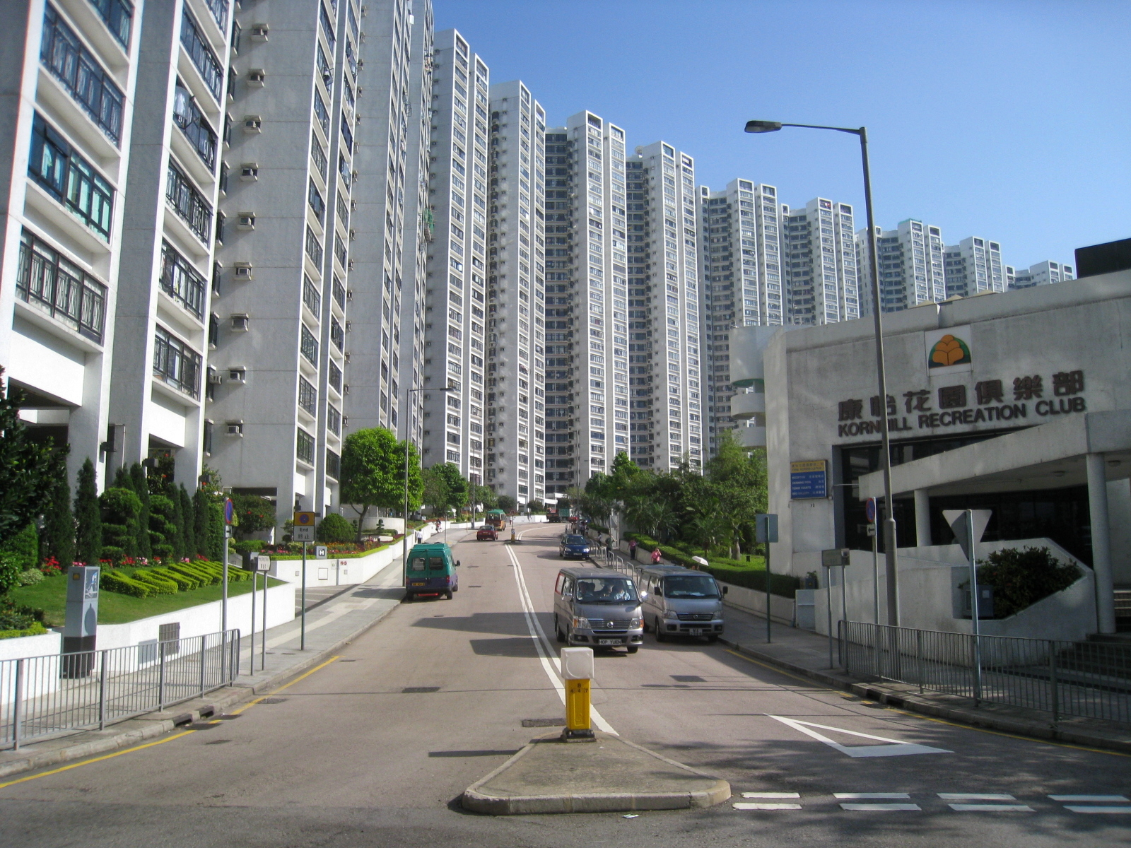 Kornhill Upper Residentional 康怡花園